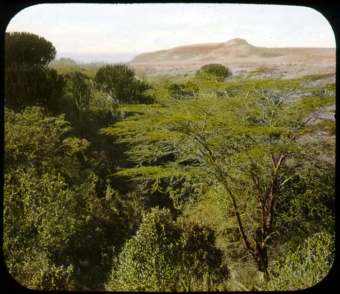 View of trees, hills, grass. 1906. Name of Expedition: British East Africa Participants: Carl Akeley Expedition Start Date: October 8, 1905 Expedition End Date: December 21, 1906 Purpose or Aims: Zoology Mammals Location: Africa, Kenya, Mau Escarpment, Lake Elementeita Original material: Hand-colored glass lantern slide Digital Identifier: CSZ20131_LS Learn more about The Field Museum's Library Photo Archives.